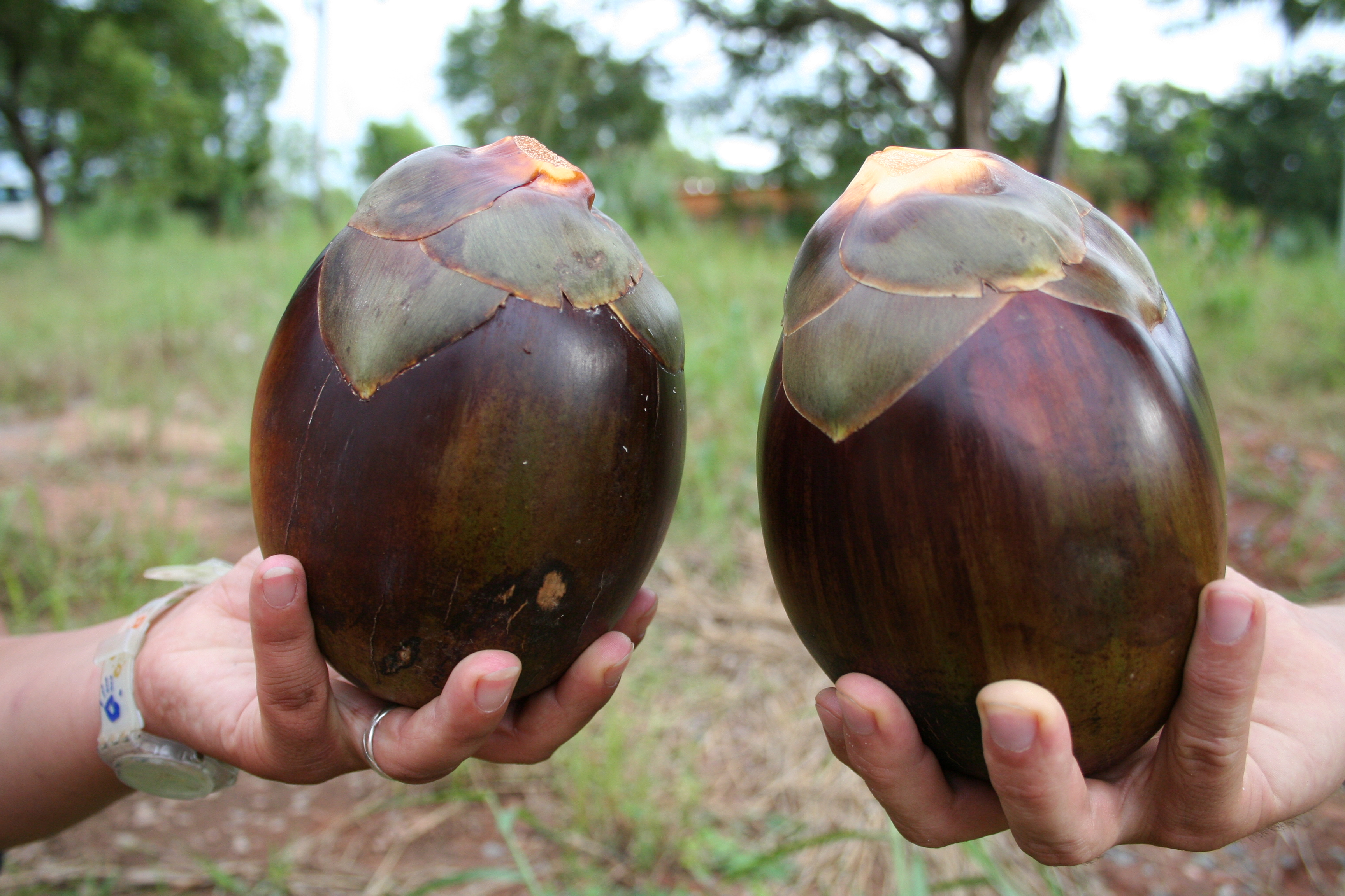 Fruits of Borassus ake-assii, Burkina Faso